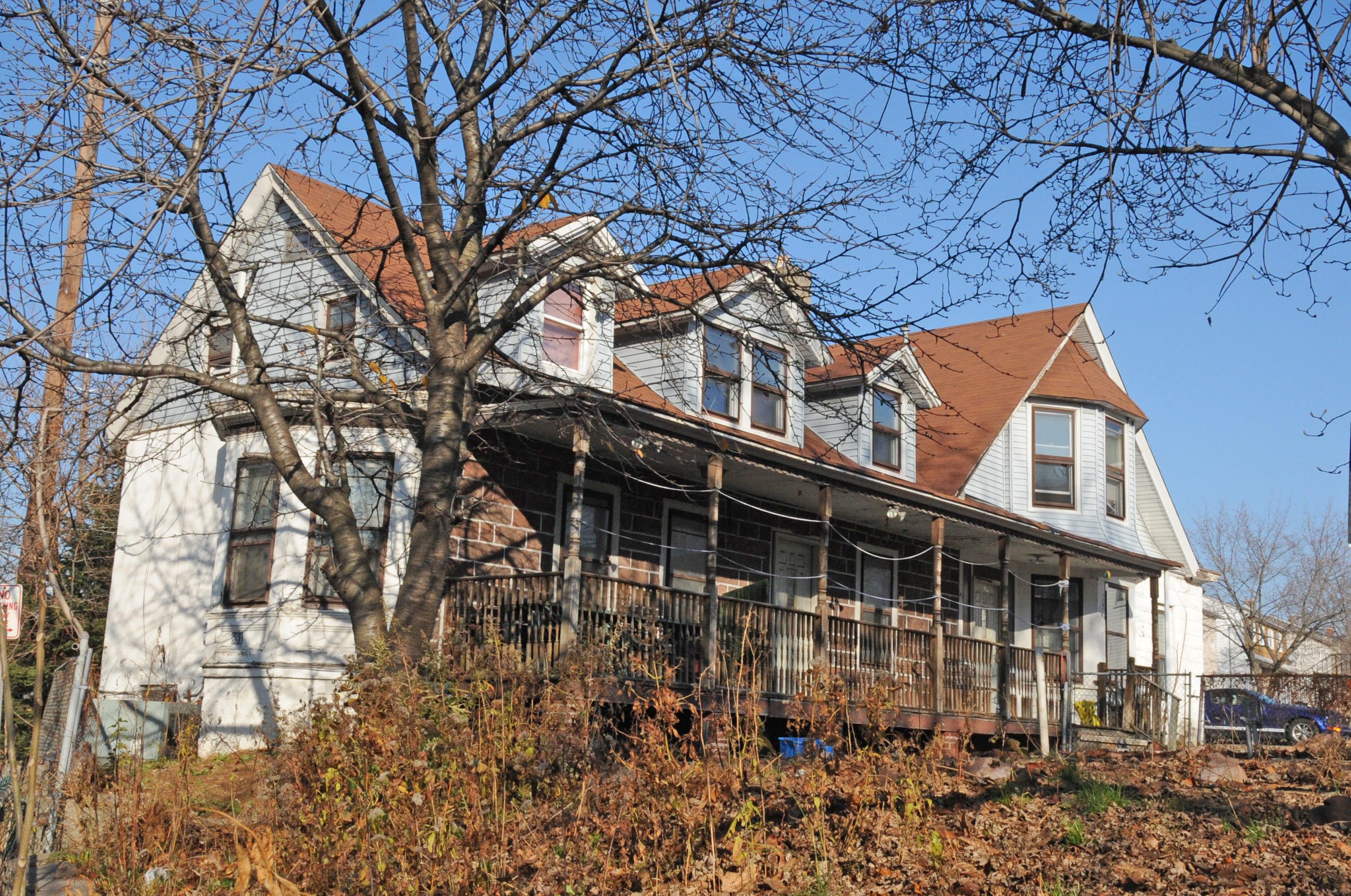 BUILT IN 1782 BY CORNELIUS VAN HOUTEN; LATER BOUGHT BY HERMANN HILLMAN IN 1888 WHO REMODELED THE ORIGINAL HOMESTEAD